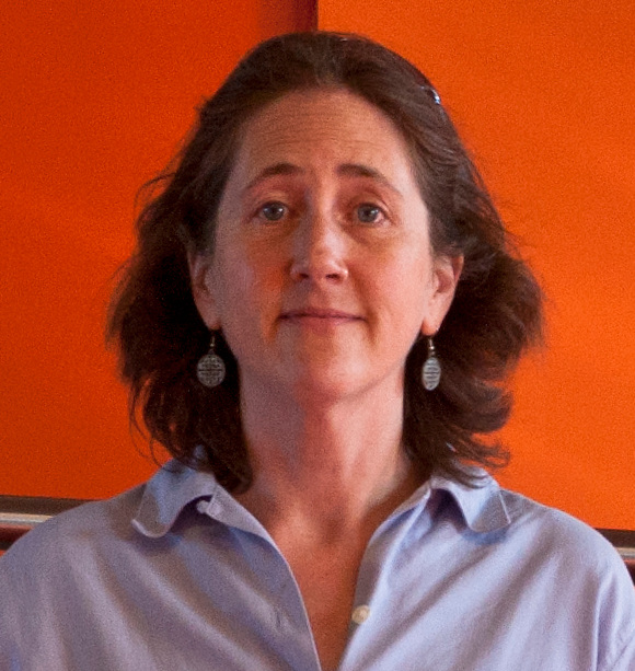 Jessamyn West, librarian, photographed in 2014.